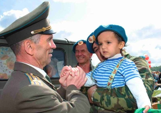 Col. Leonid Khabarov at the Veteran’s Day, prior to the arrest.